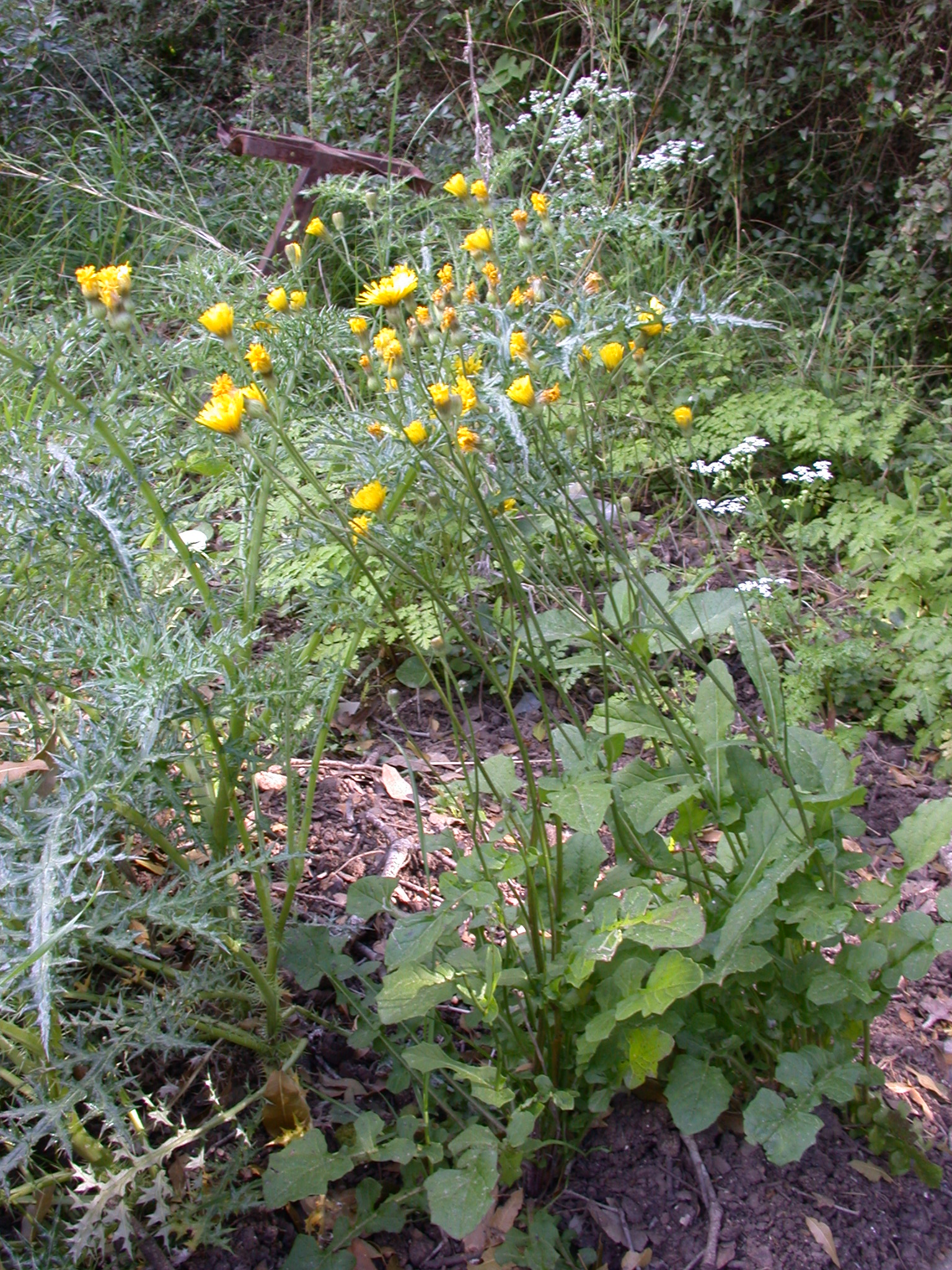 Crepis hierosolymitana Boiss. (ניסנית ירושלמית), Mount Carmel, Israel, March 25, 2007.